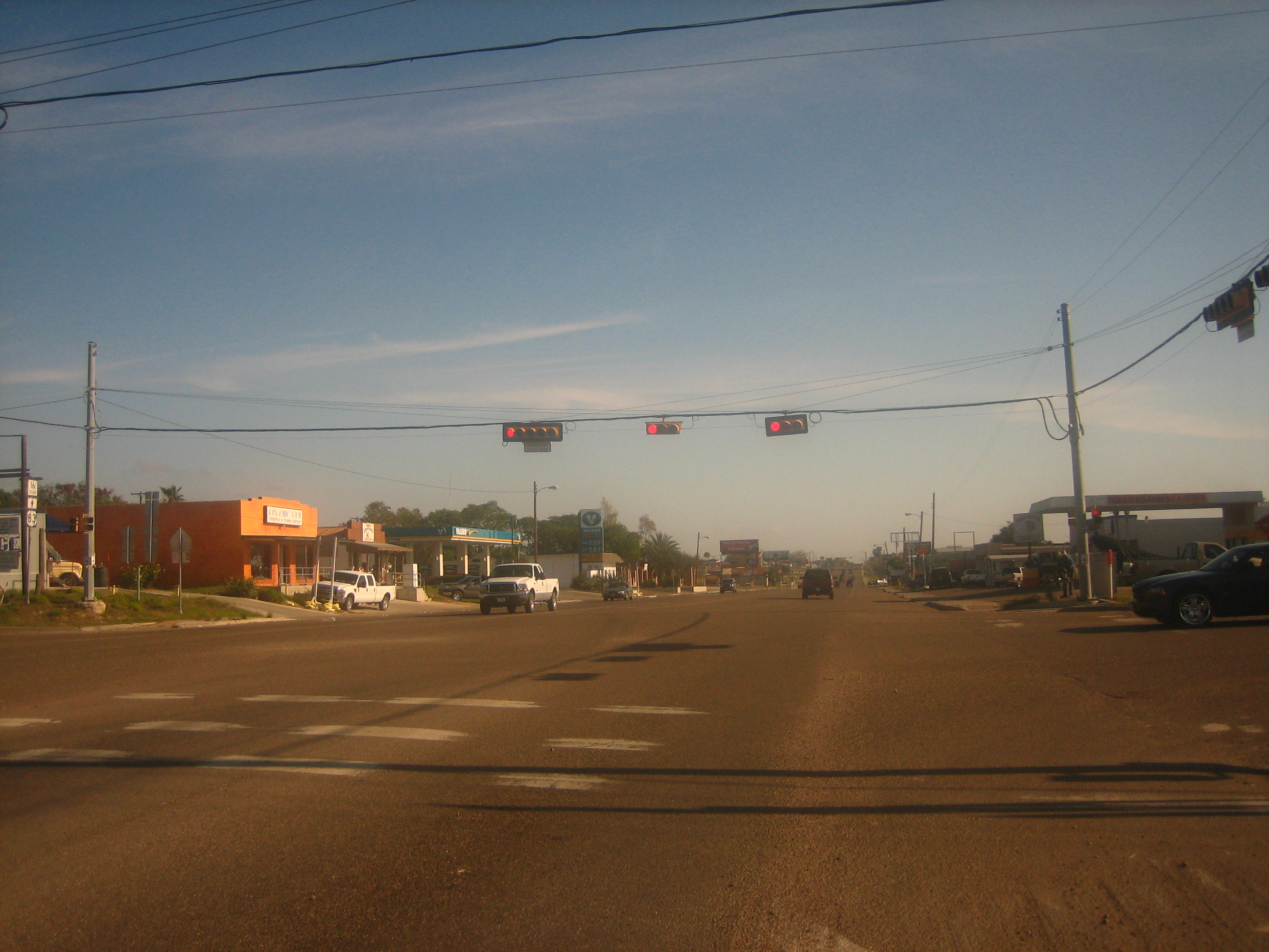 I took photo on Jan. 17, 2009.Billy Hathorn (talk) 03:55, 18 January 2009 (UTC)